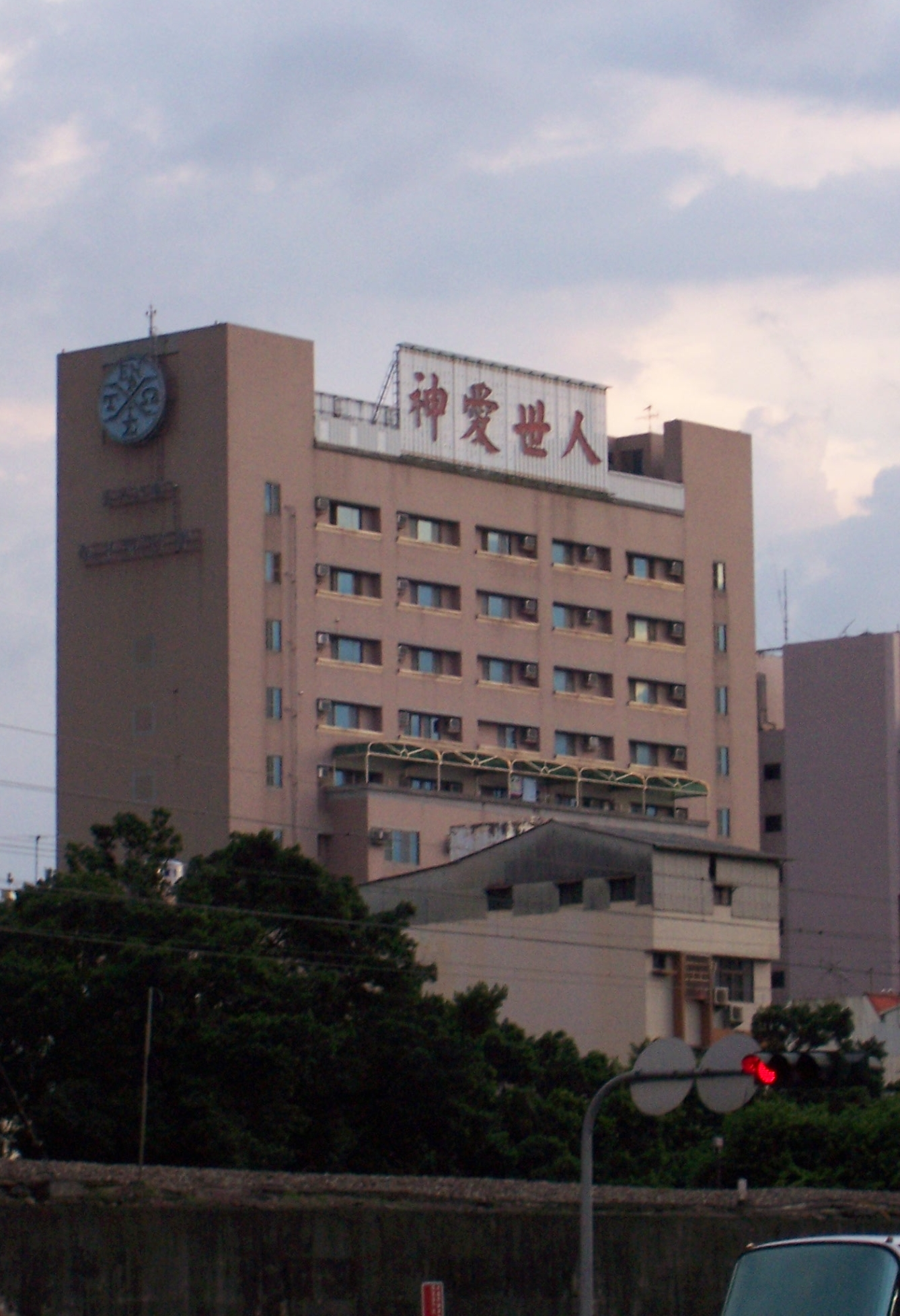 Fuxing Building, The Church in Taichung.